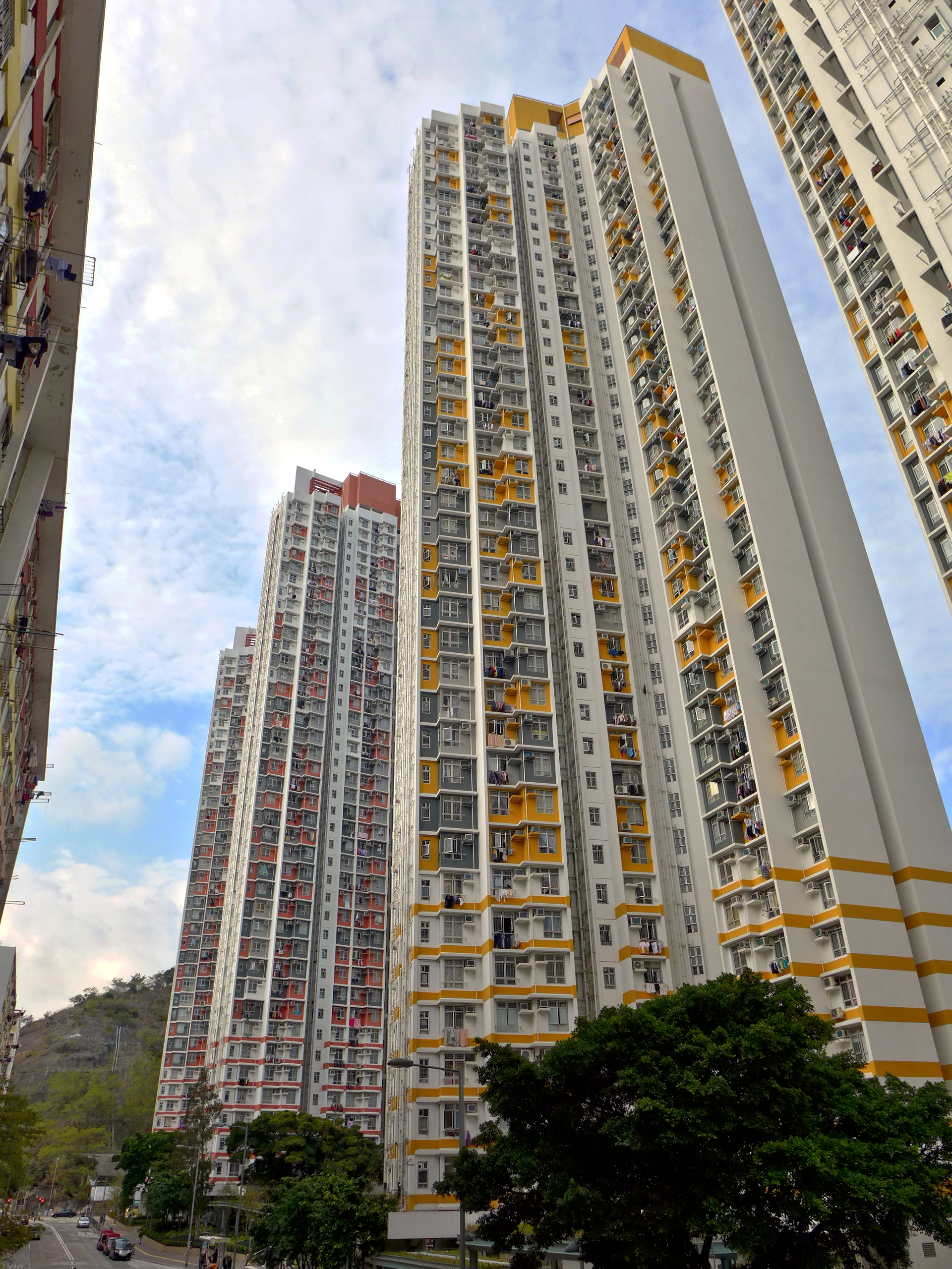 Shek Kip Mei Estate Redevelopment Phase 5